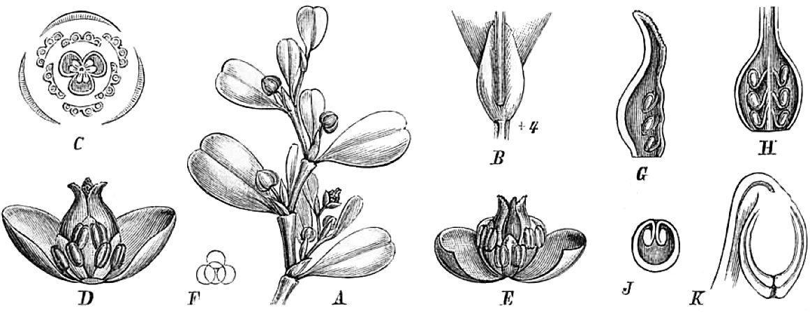 Botanical illustrations of Lactoris fernandeziana Philippi. - A — branch; B — basal part of leaf showing stipuls forming sheat around the internodium; C — Flower diagramm; D, E — Flower, side view, after removal of one sepal; F — Pollen tetrad; G — longitudinal section of the carpell; H — dorsal section of the same; J — latitudinal section of the same; K — Seed, much magnified.